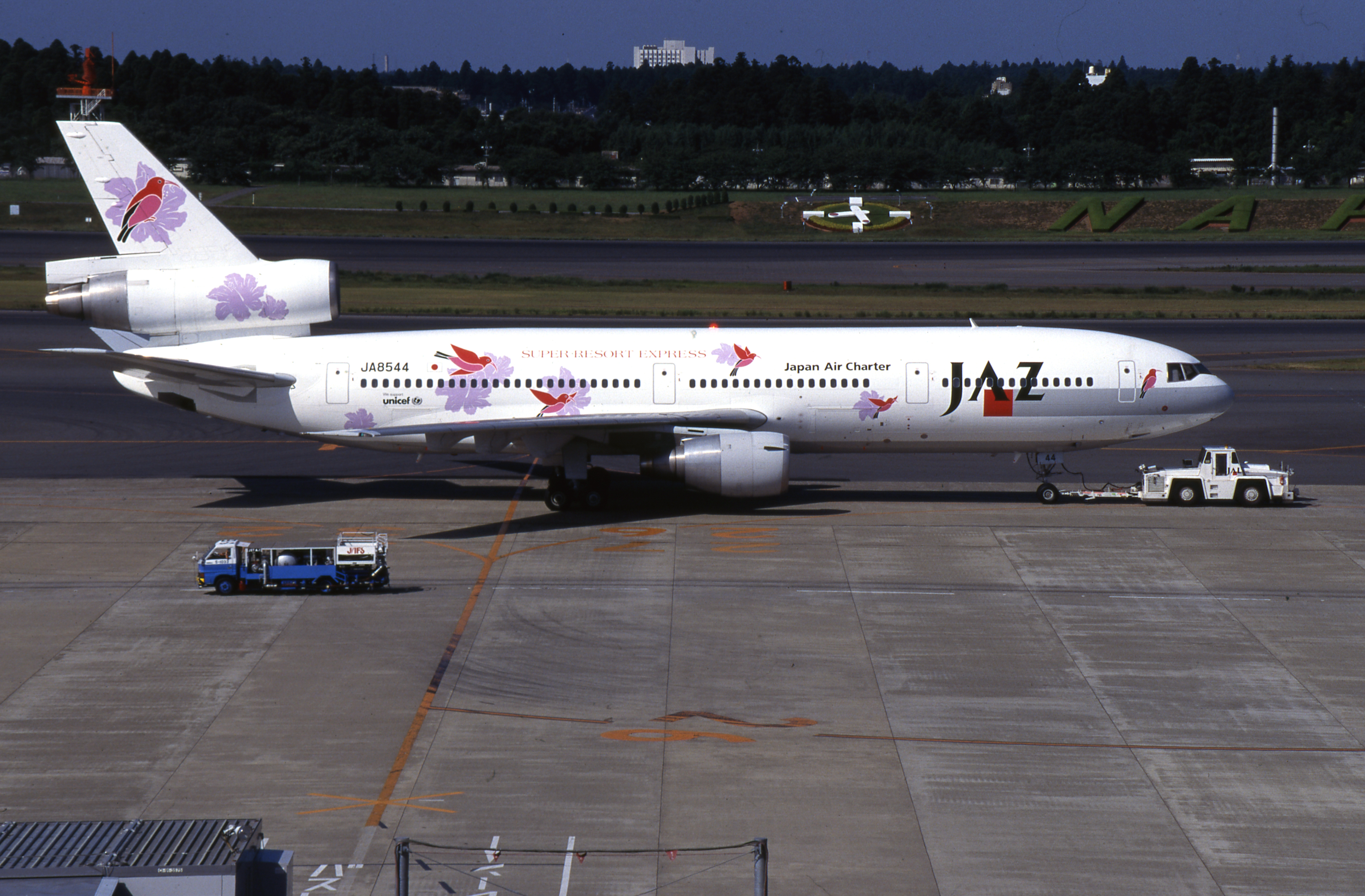 Early 1990's...